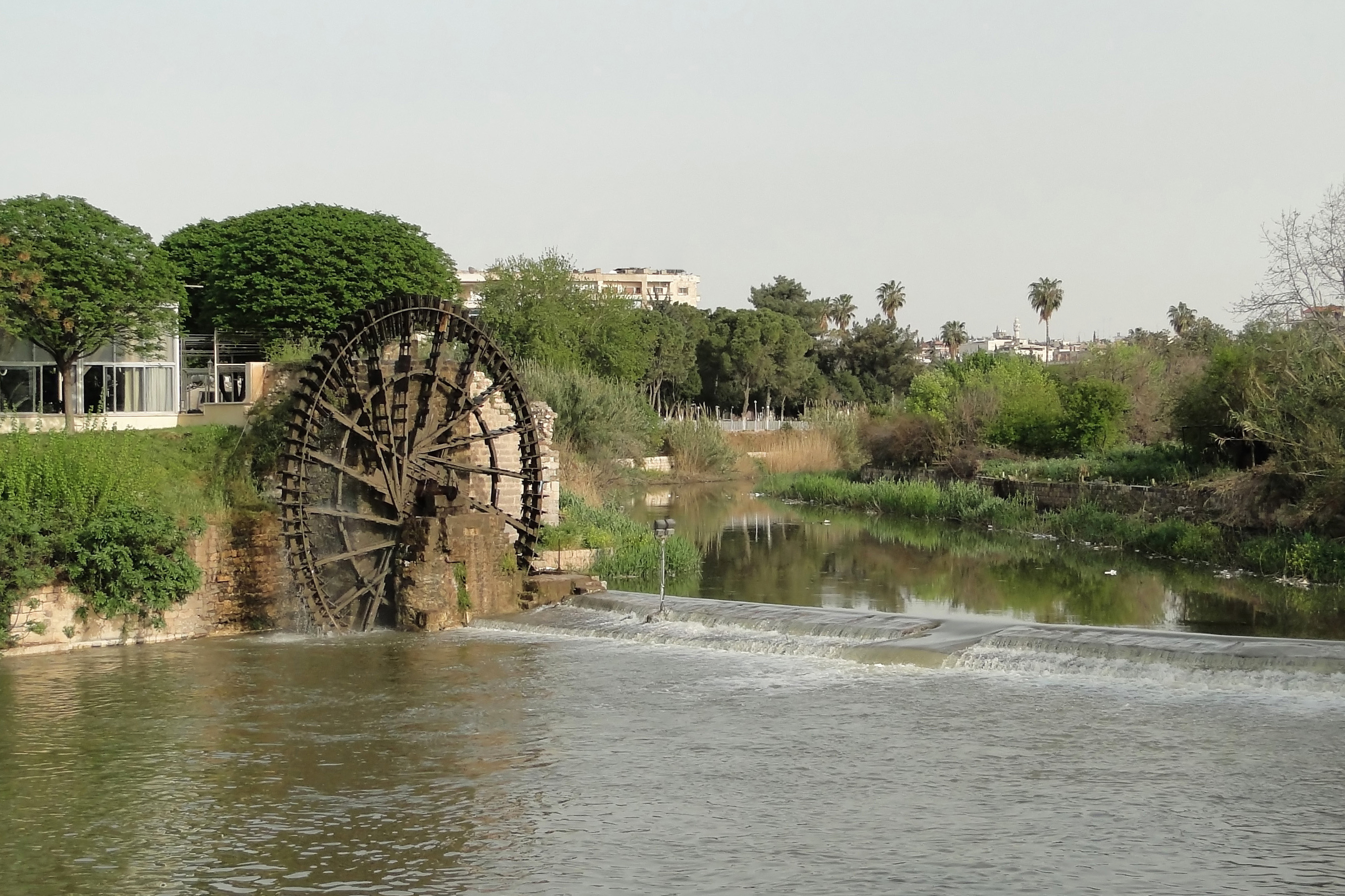 A noria on Orontes River in Hama, Syria